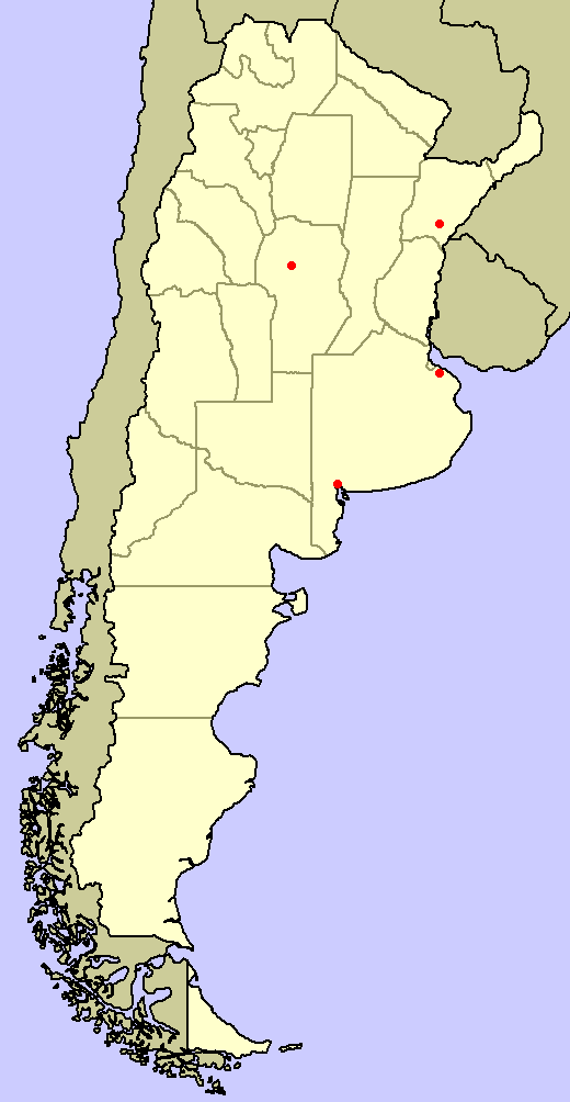 Beginning of the "Liberating Revolution" Sept 16 1955.